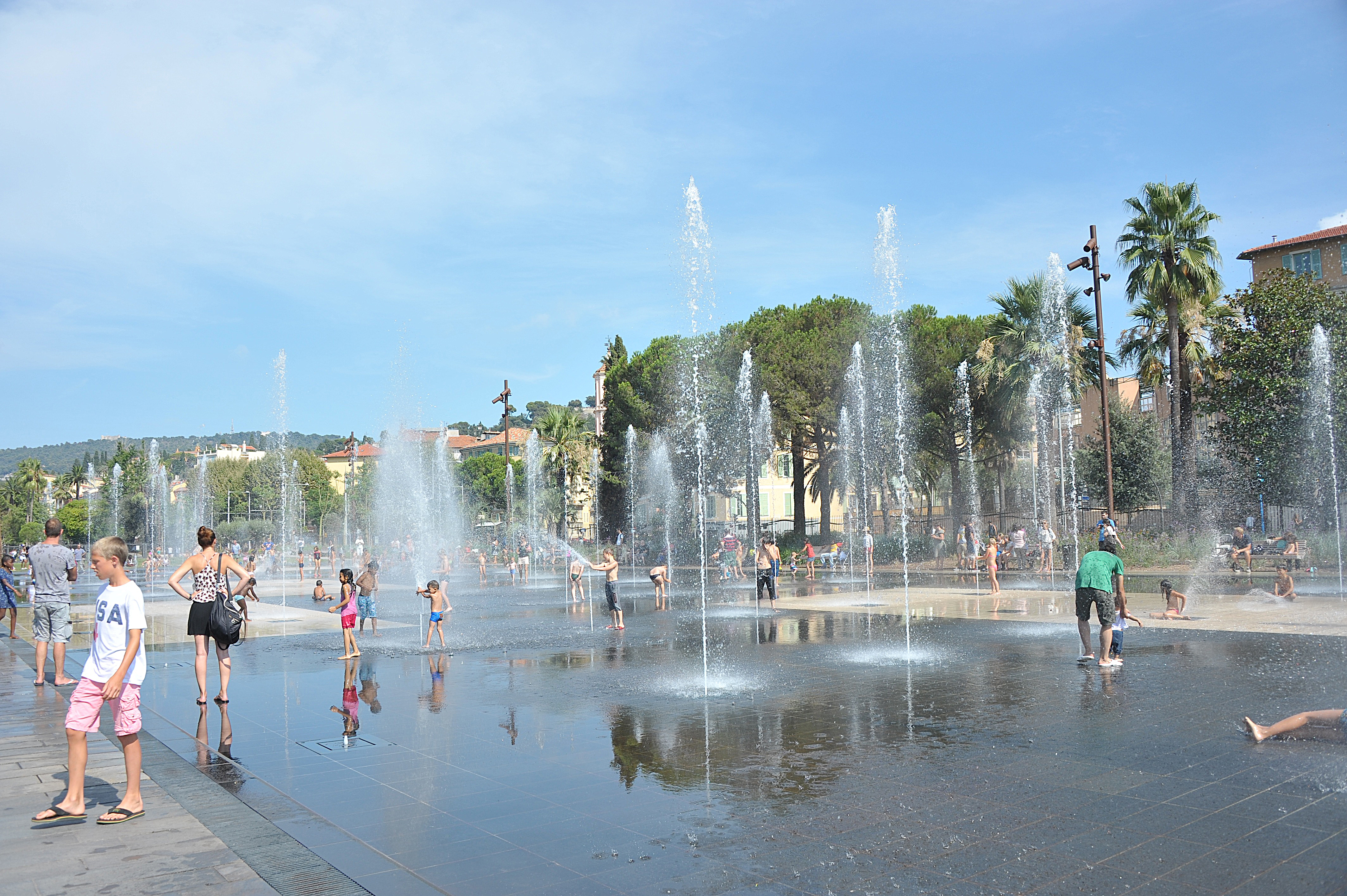 Promenade du Paillon